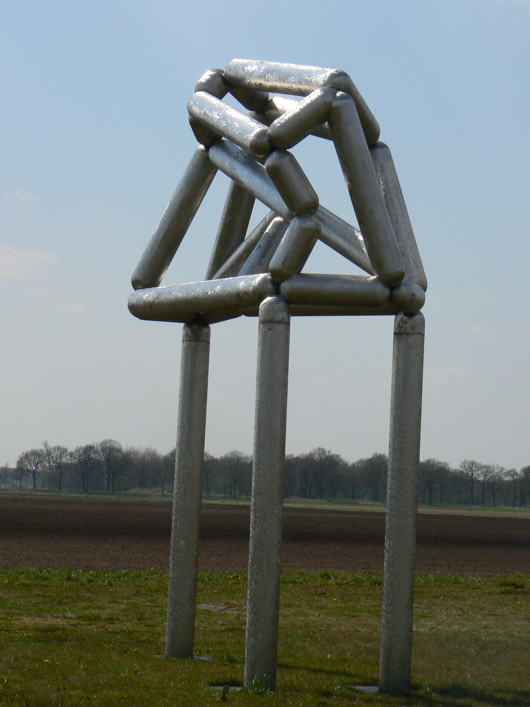 sculpture (1 of 2) The Same But Different (2006) by Richard Deacon in Drenthe/The Netherlands